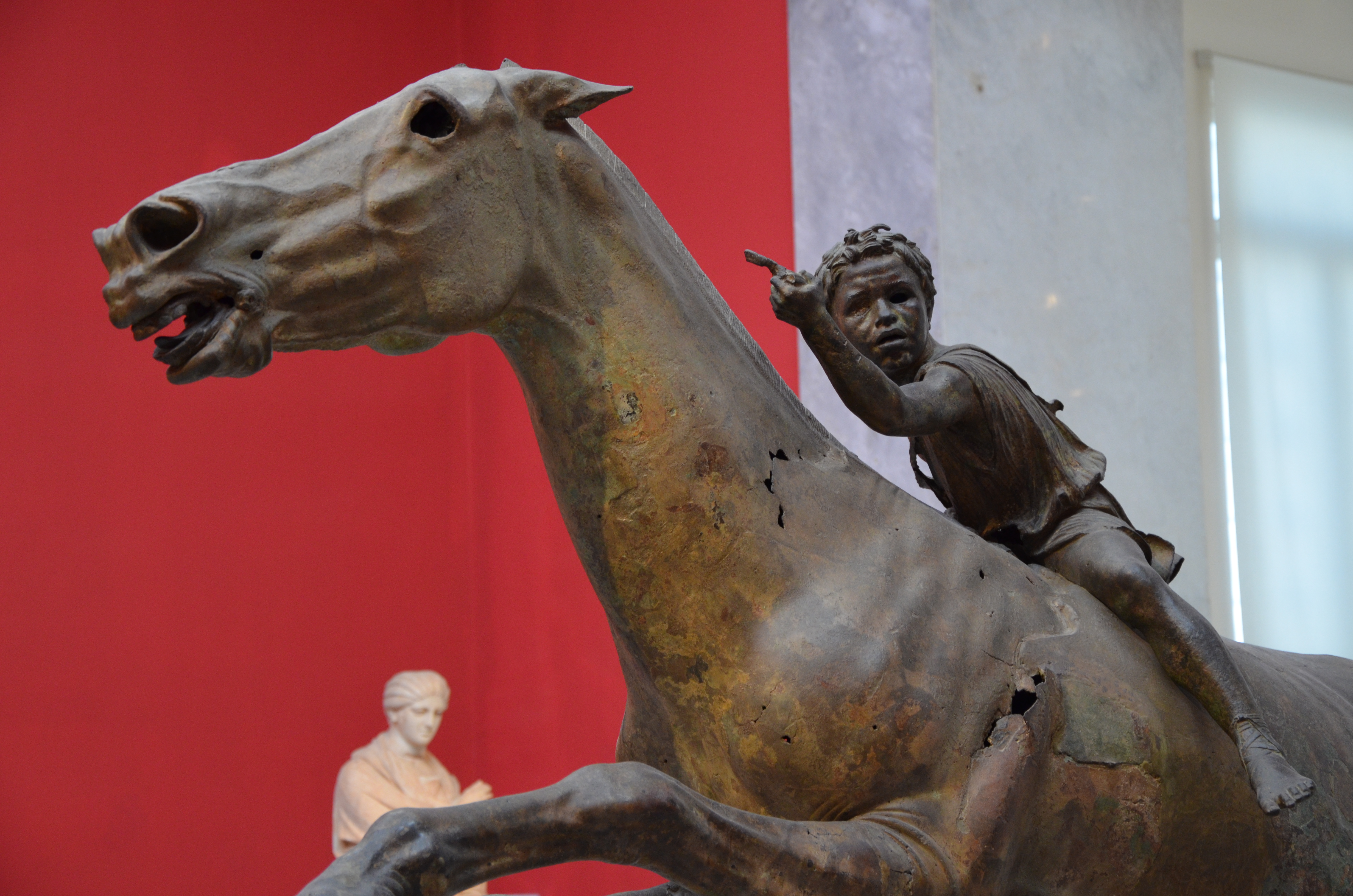 The Artemision Jockey, bronze statue of a horse and young jockey, retrieved in pieces from the shipwreck off Cape Artemision in Euboea, about 140 BC, National Archaeological Museum of Athens